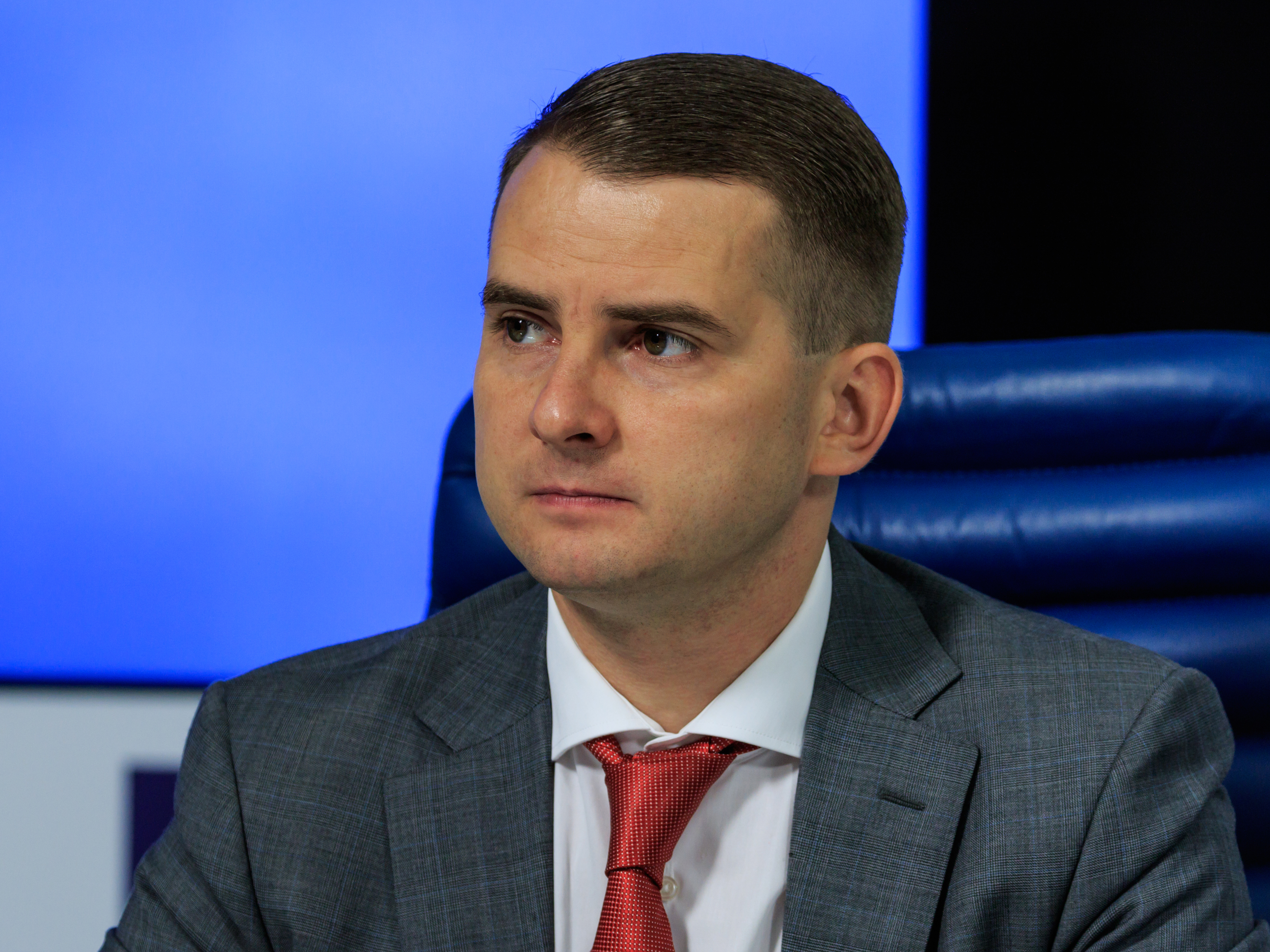 Yaroslav Nilov (b. 1982) is a politician (LDPR) from Russia